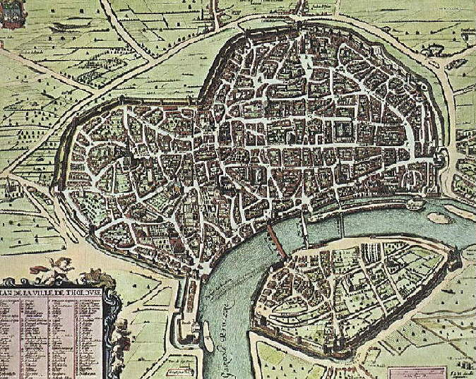 Map of Toulouse (France) in 1631 A.D, by Melchior Tavernier